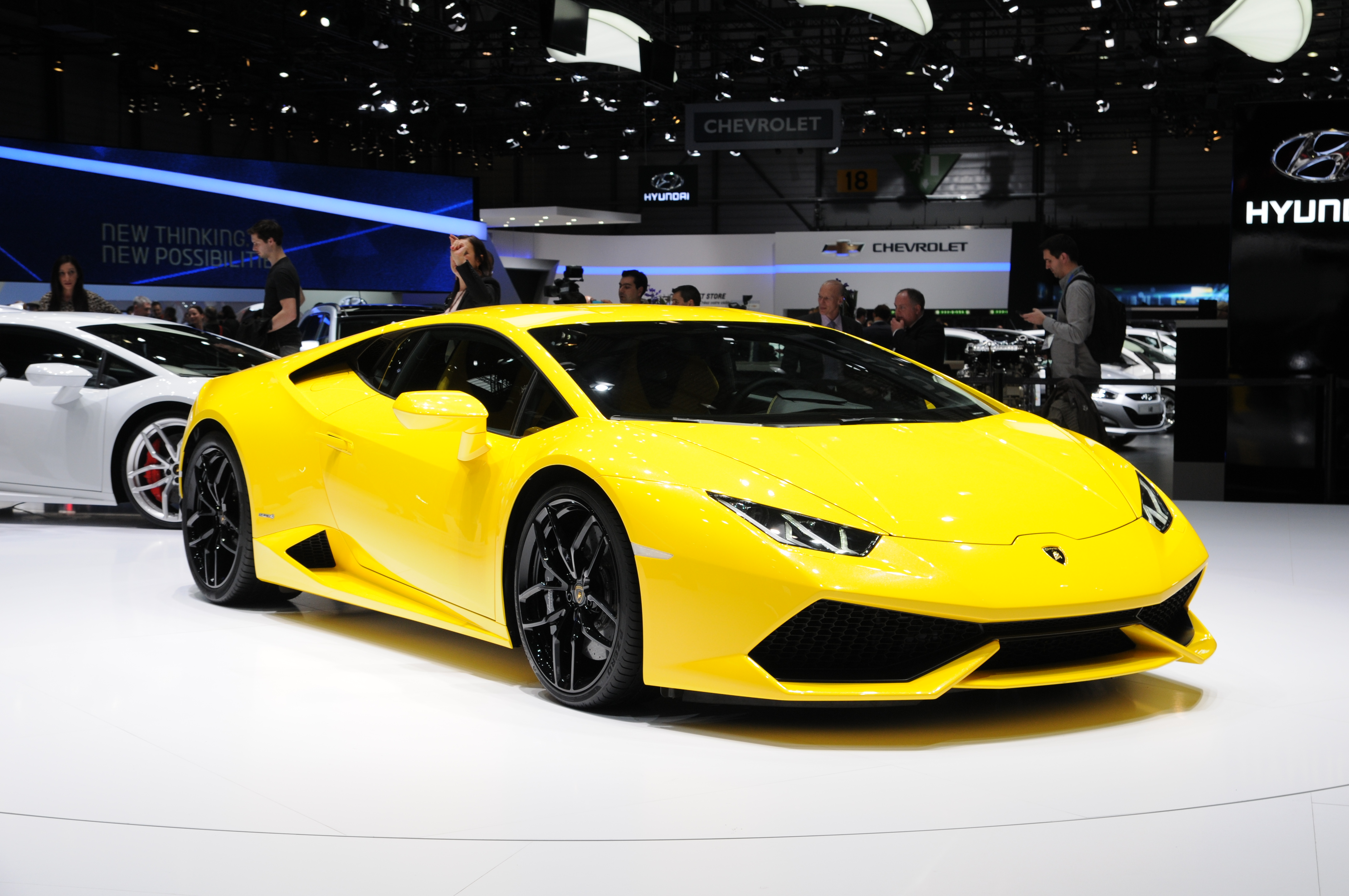 Geneva Motor Show 2014 (photo taken on the first press day)